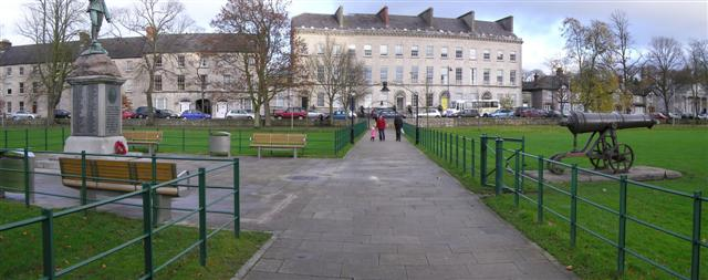 The Mall, Armagh